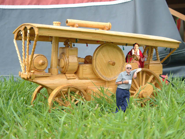 Matchstick model of a steam engine, digitally altered Image from an original photograph by Amos Wolfe taken 12th August 2001. Two full-sized figures added digitally to replicate full-sized engine, by Amos Wolfe on 22nd August 2001.